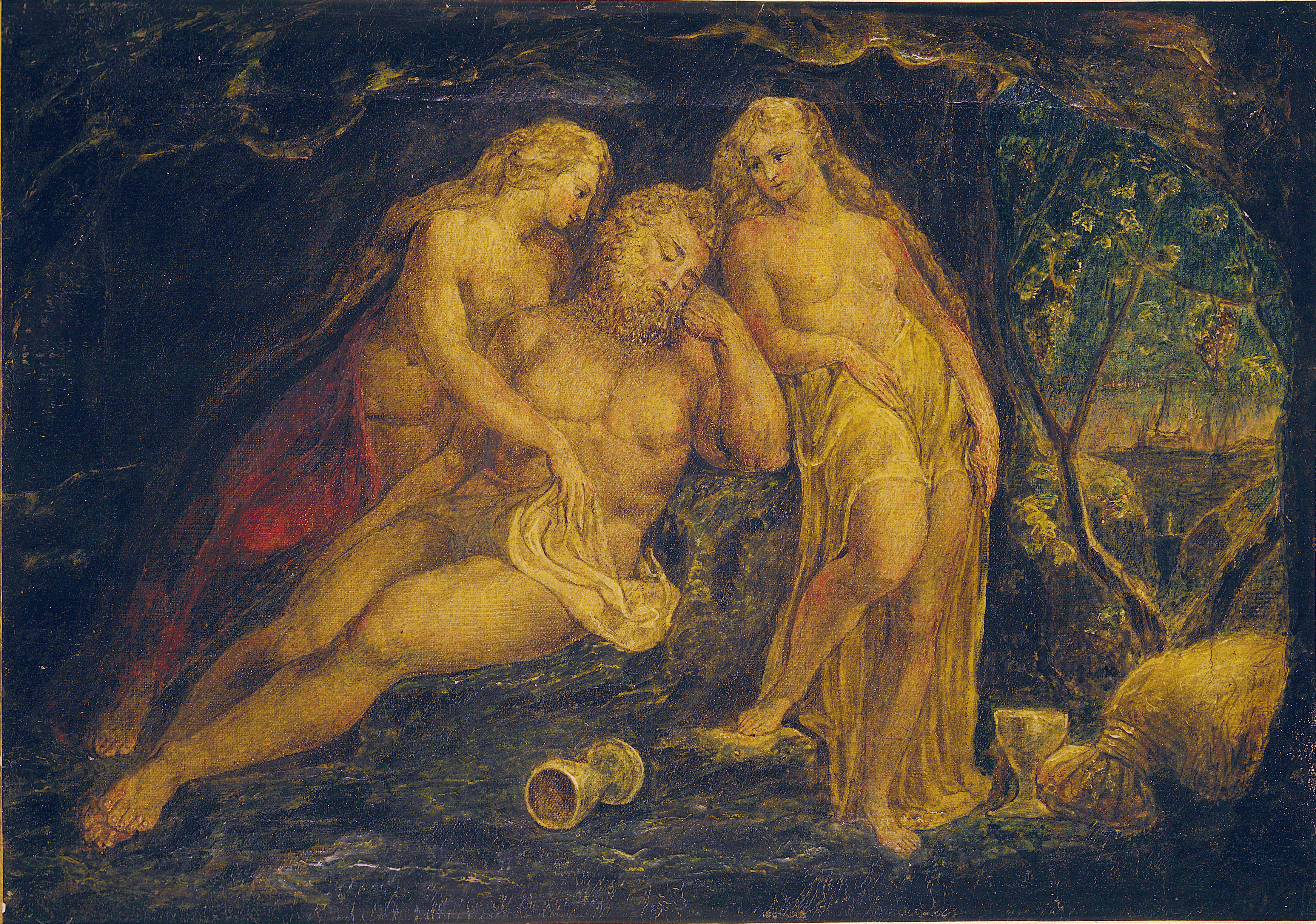 William Blake Lot and His Daughters Butlin 381